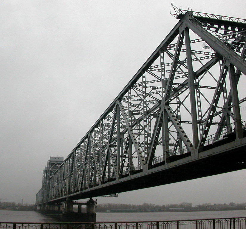 Arkhangelsk "Old" bridge